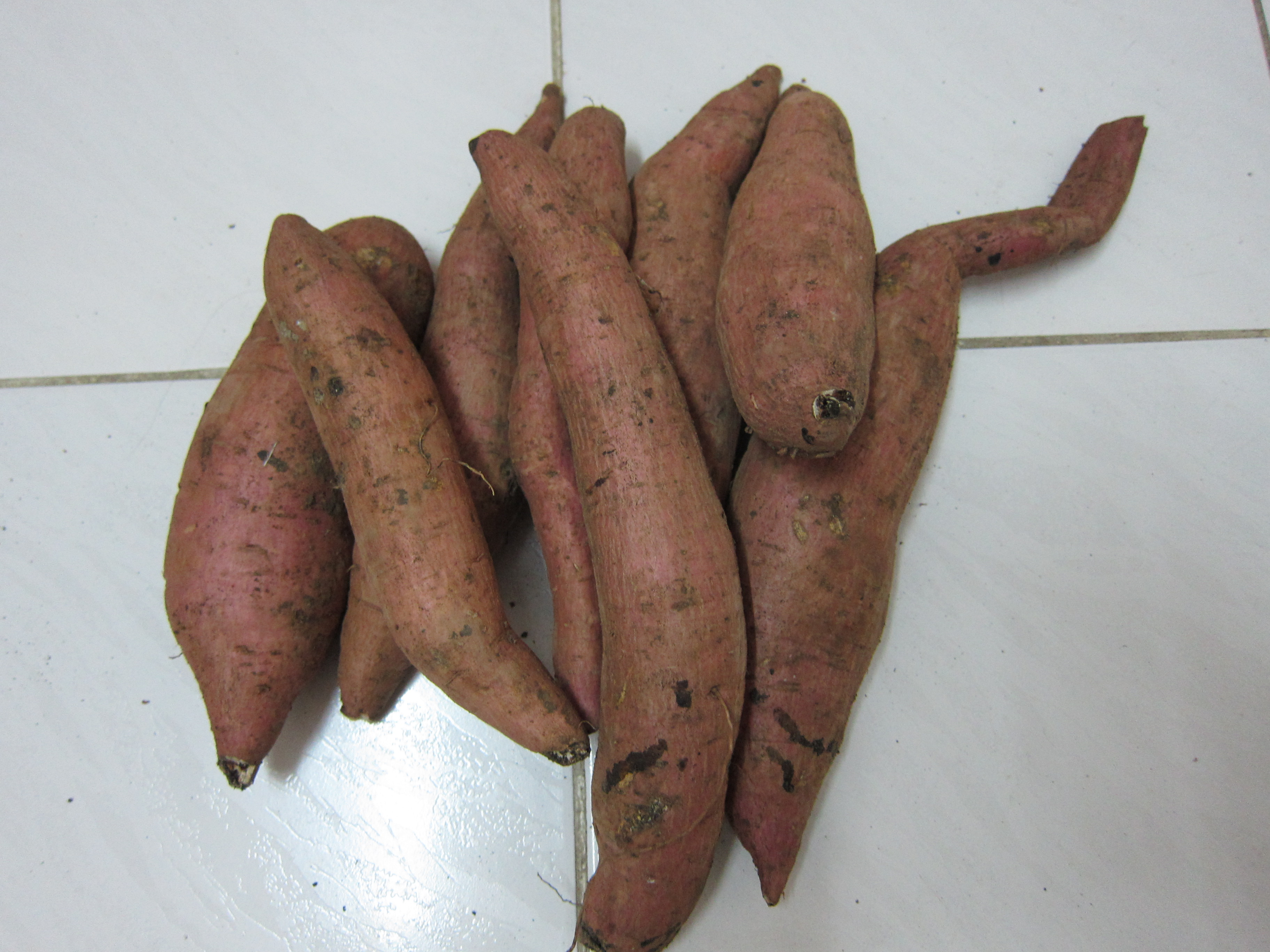 Sweet Potato Ipomoea batatas - Scientific Name മധുരക്കിഴങ്ങ് ചക്കരക്കിഴങ്ങ്